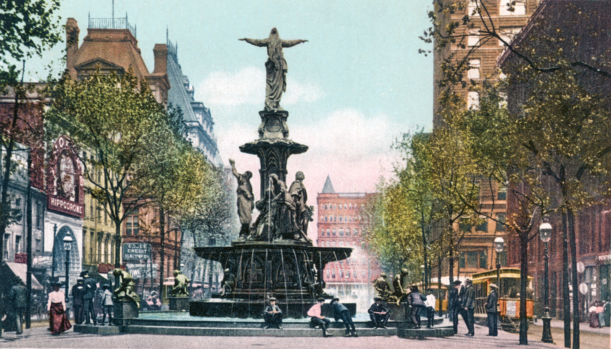 Fountain Square and Tyler Davidson Fountain, Cincinnati, Ohio in 1906. This view is looking east on 5th Street a little ways west of Walnut Street. The area has since been rebuilt, and the plaza and fountain now occupy a larger area on the north side of 5th Street, instead of in the center of 5th.